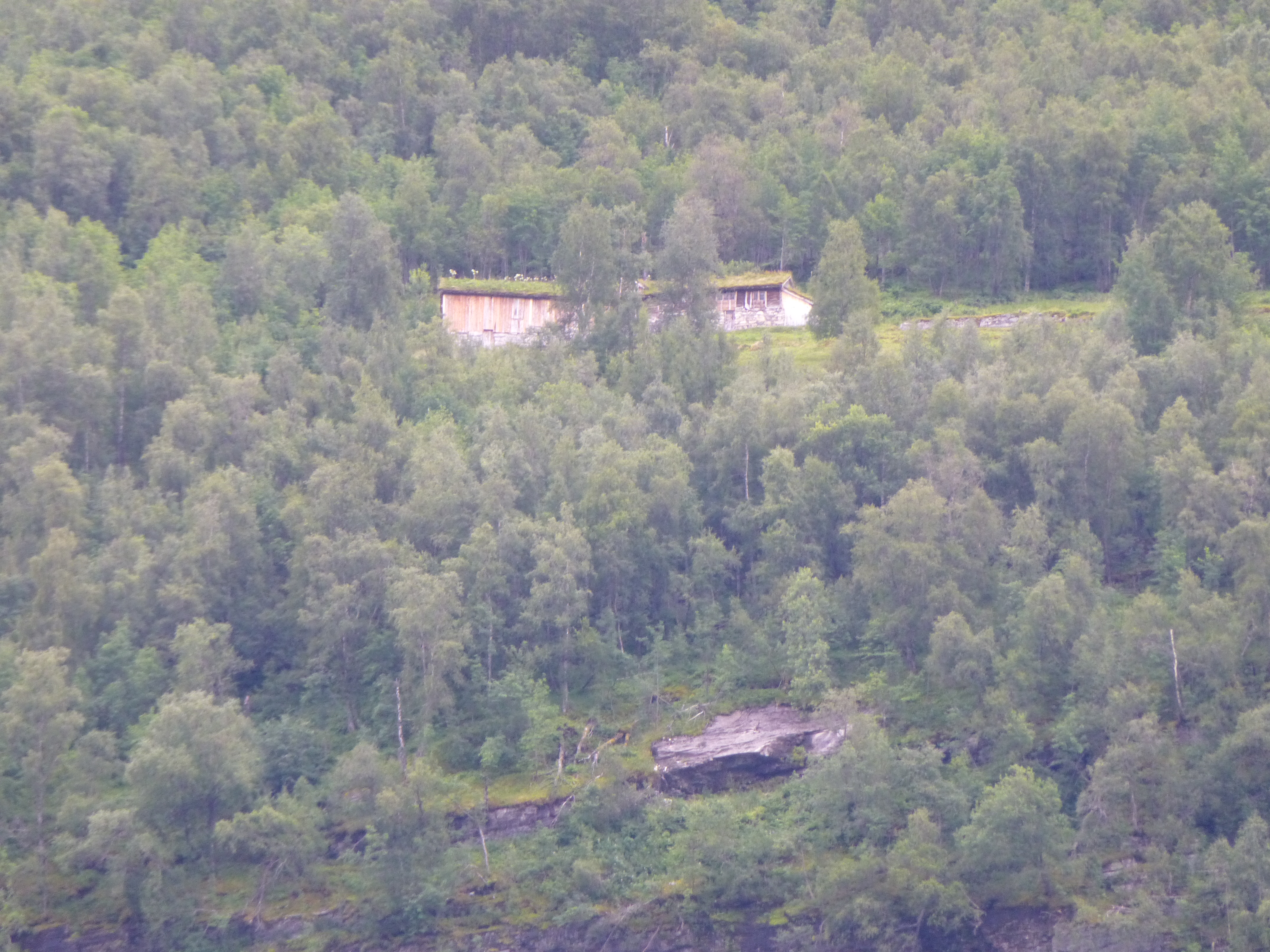 View up to old Blomberg farm overlooking Geirangerfjord